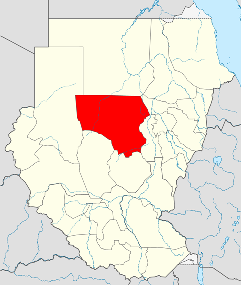 Locator map of smaller pre-2005 North Kurdufan State, in the Kurdufan region — in pre-2011 Sudan. West Kordofan State was abolished in 2005 and divided between South Kordofan and North Kurdufan States. Needing post-2005 larger North Kordofan State boundaries Map showing former Southern Sudan, without post-2011 South Sudan political boundaries.